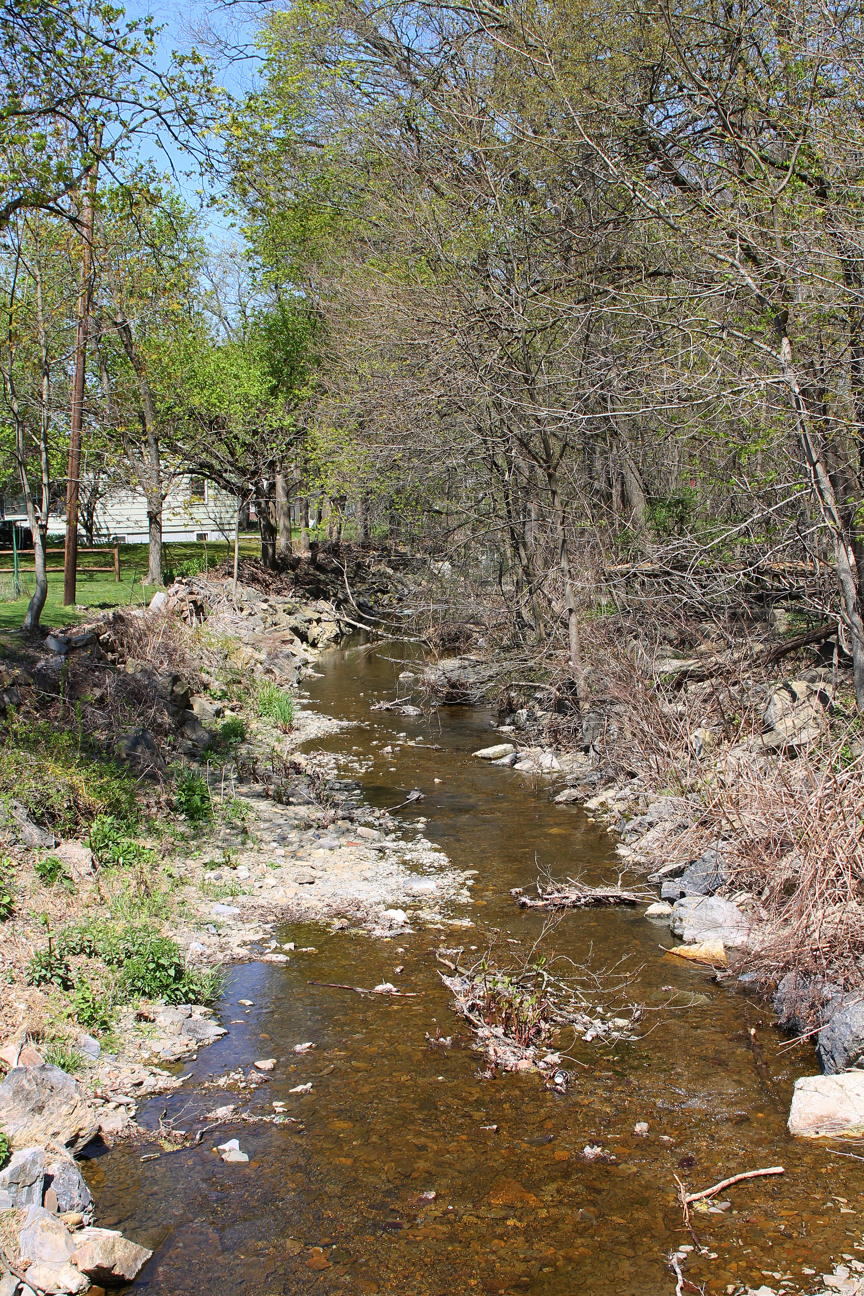 Glade Run, a tributary of the West Branch Susquehanna River in Northumberland County, Pennsylvania and Lycoming County, Pennsylvania, looking downstream in or near Muncy.